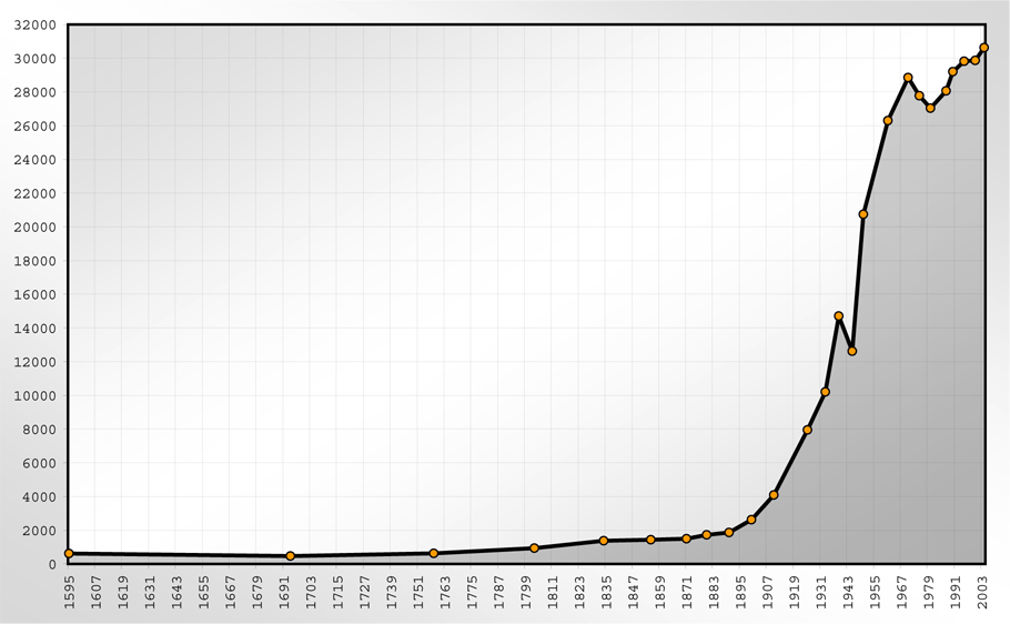 This image shows the population statistics of Kornwestheim (Germany).